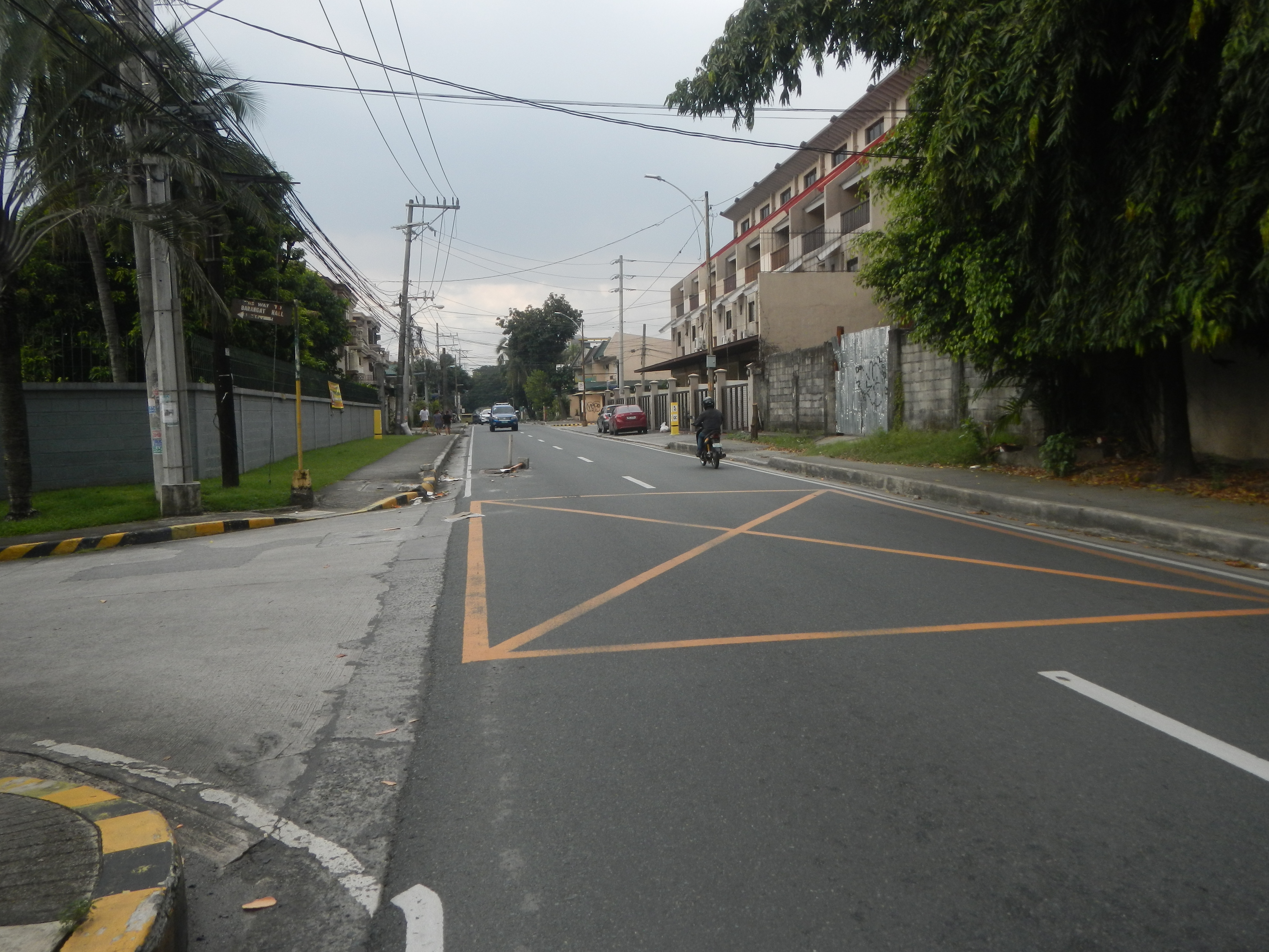 Renee Salud (Balete Drive, Mariana, New Manila, Quezon City) Centennial House (Bahay Sentenaryo), Balete Drive, Mariana, New Manila, Quezon City Rene Salud Fashion Ambassador Balete Drive (E. Rodriguez, Sr. Avenue - Bouganvilla Street), Mariana, New Manila, Quezon City in front of Balete Drive Extension Balete Drive Haunted highway List of haunted locations in the Philippines Major roads in Metro Manila in the List of barangays of Metro Manila Legislative districts of Quezon City Districts 3, Barangays of Quezon City, Barangay Kristong Hari 14°37'28"N 121°1'31"E beside Mariana 14°37'1"N 121°2'13"E New Manila, Quezon City upon the List of rivers and estuaries in Metro Manila Diliman Creek from San Juan River (Metro Manila) Estuaries in Cubao, Quezon City along Aurora Boulevard (Note: Judge Florentino Floro, the owner, to repeat, Donor Florentino Floro of all these photos hereby donate gratuitously, freely and unconditionally all these photos to and for Wikimedia Commons, exclusively, for public use of the public domain, and again without any condition whatsoever).